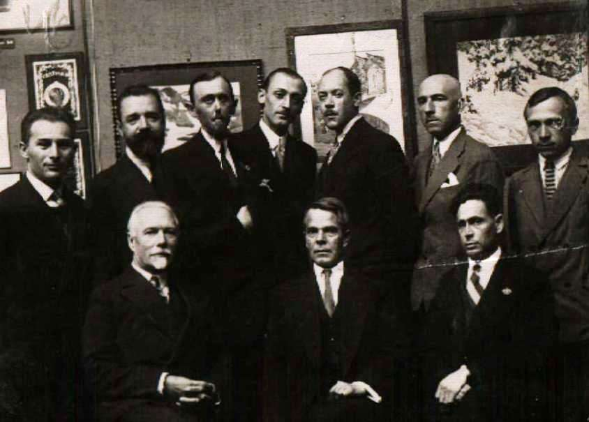 Bulgarian painters